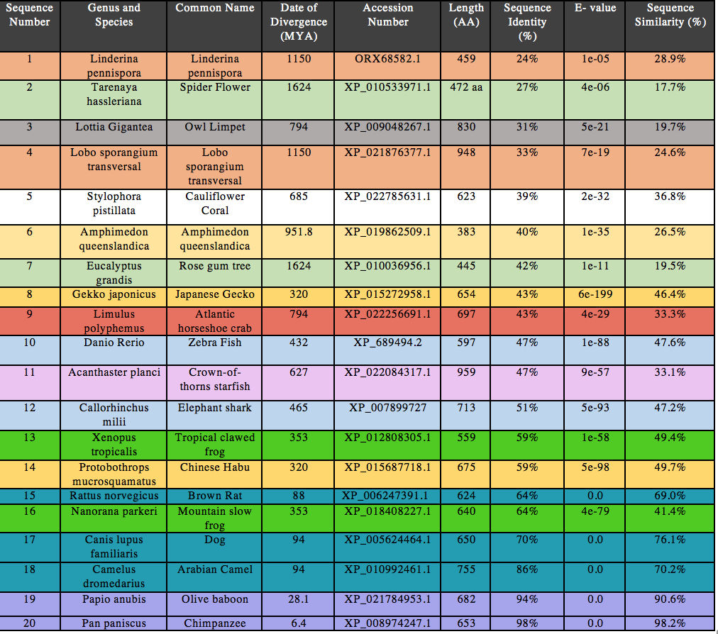 This is a table that denotes common orthologs of C17orf53